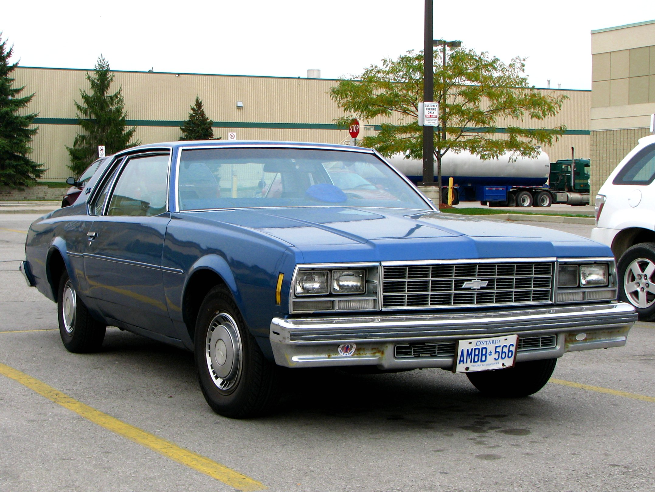 I forgot there was a coupe version of the caprice! This seems recently bought as the Licence plate Numbers are of a recent format.